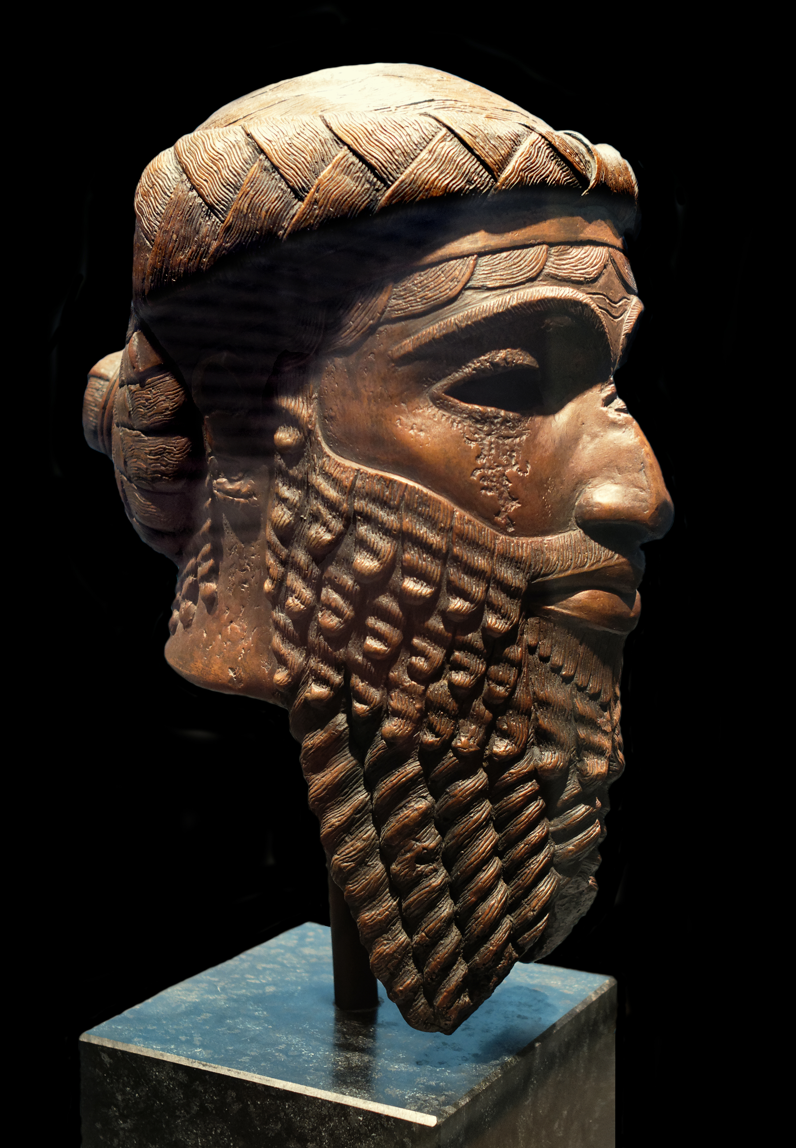 Bronze head of an Akkadian ruler, discovered in Nineveh in 1931, presumably depicting Sargon's son Manishtushu, Iraq Museum (Rijksmuseum van Oudheden)